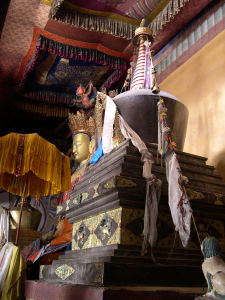 Rizong gompa, Ladakh, India